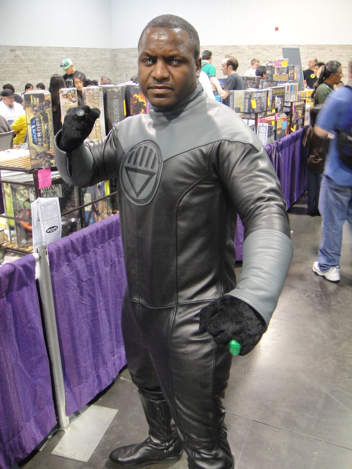 Cosplay of John Stewart as a Black Lantern (from DC Comics) at Wizard World Anaheim 2011.